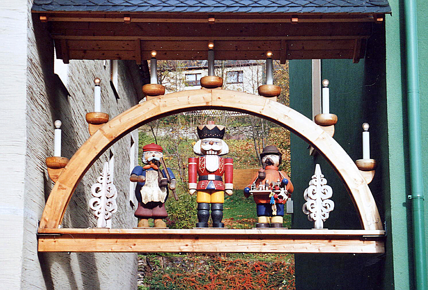 This image shows typical elements of the wooden folk art production in the Ore Mountains: a illumination arche with smoking men and a Nutcracker. The photo was taken in Seiffen.